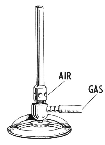 line art drawing